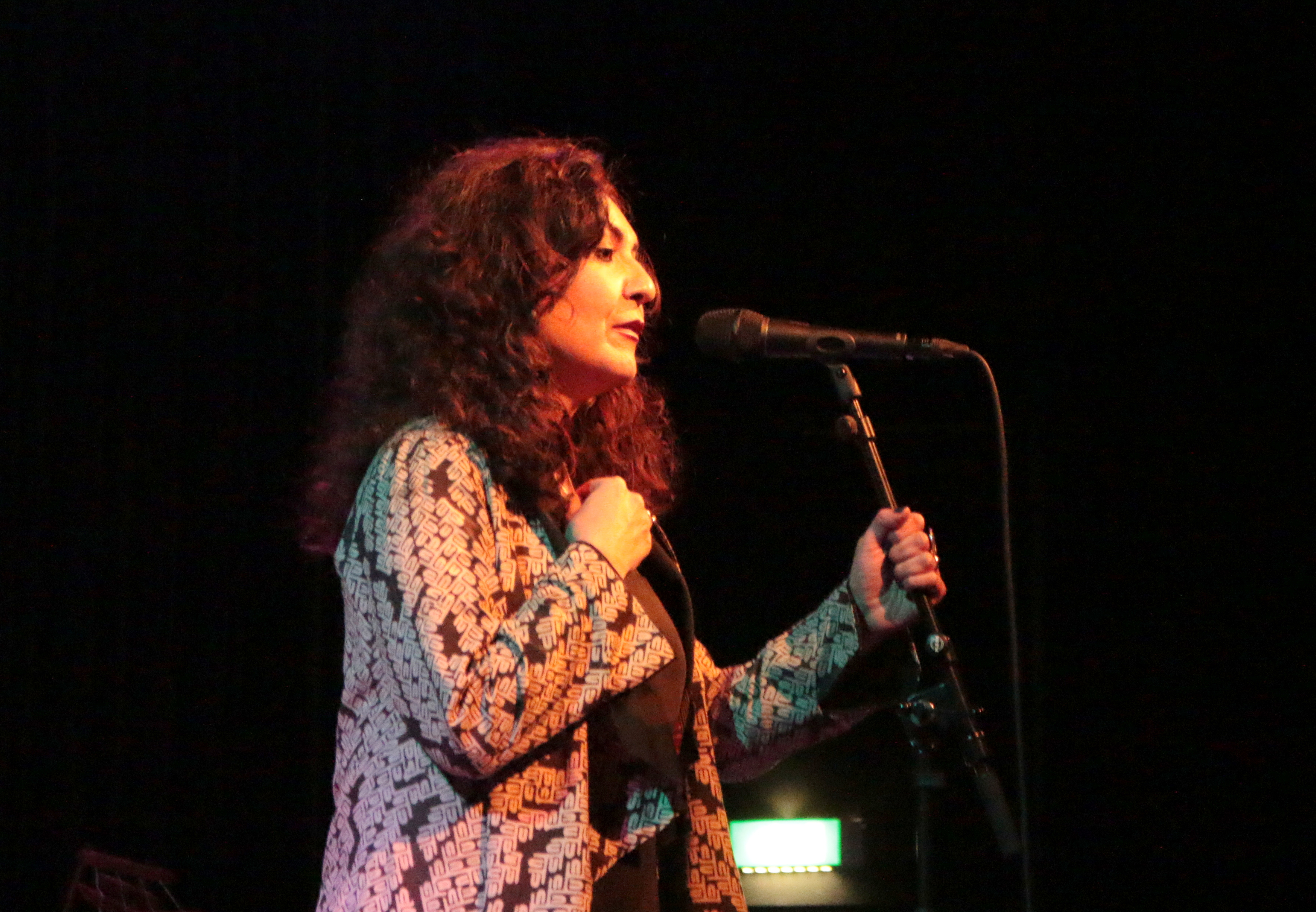 Persian vocalist Mahsa Vahdat, 2018. Photo: Persian Dutch Network